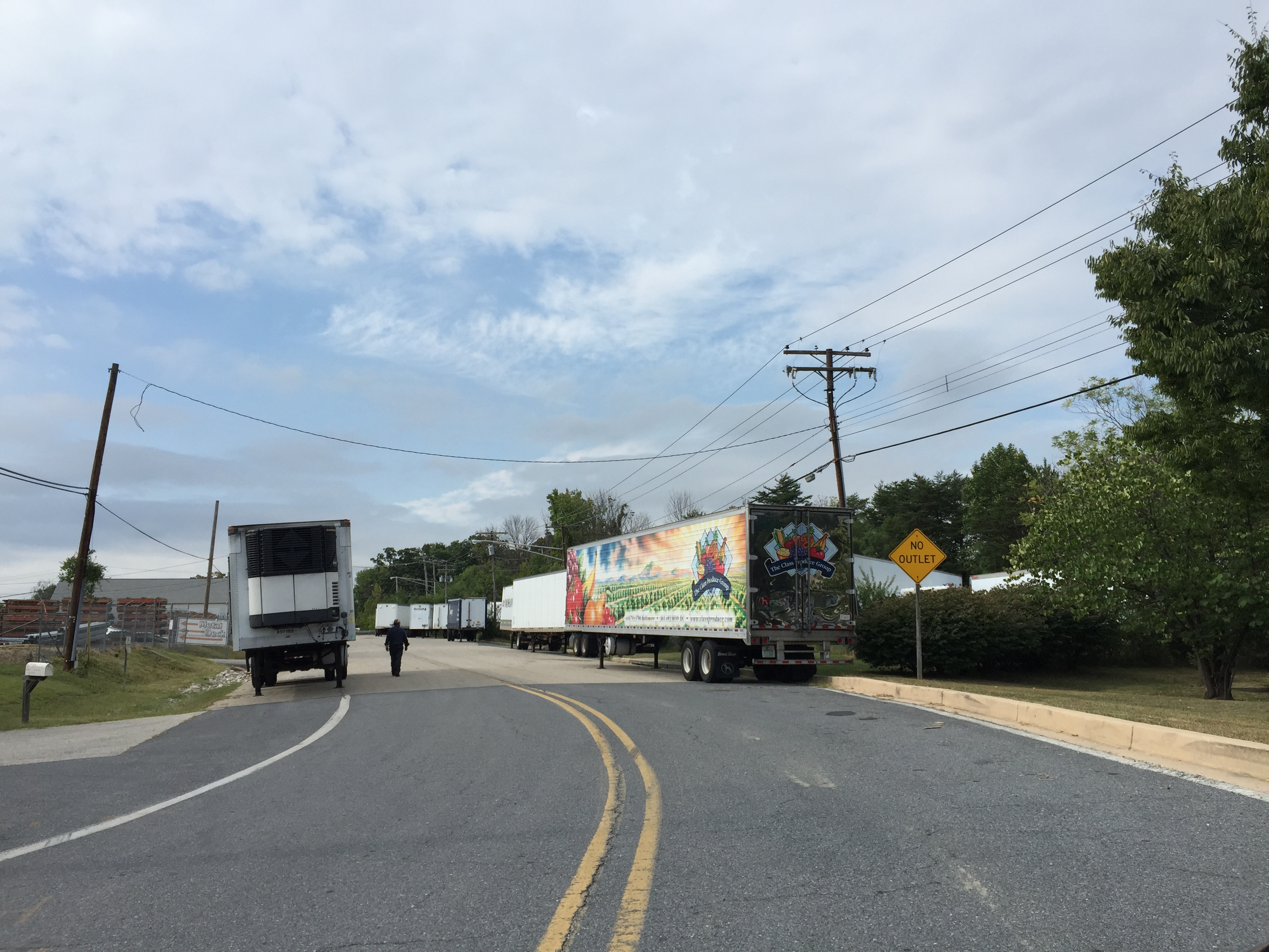 View west along Maryland State Route 176 (Binder Lane) at Maryland State Route 103 (Dorsey Road) in Elkridge, Howard County, Maryland